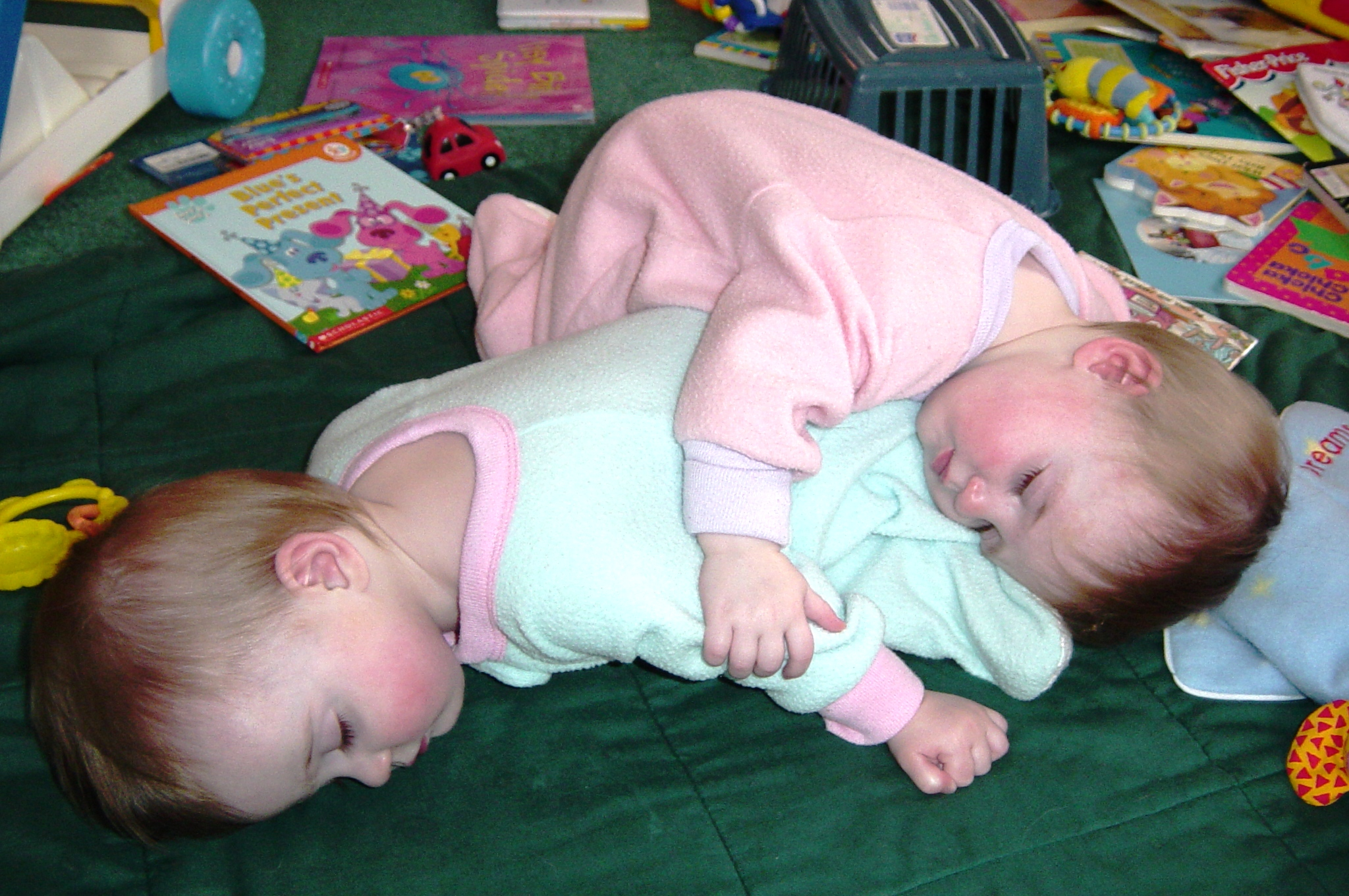 Photograph of eight month old fraternal twinen sisters napping together.